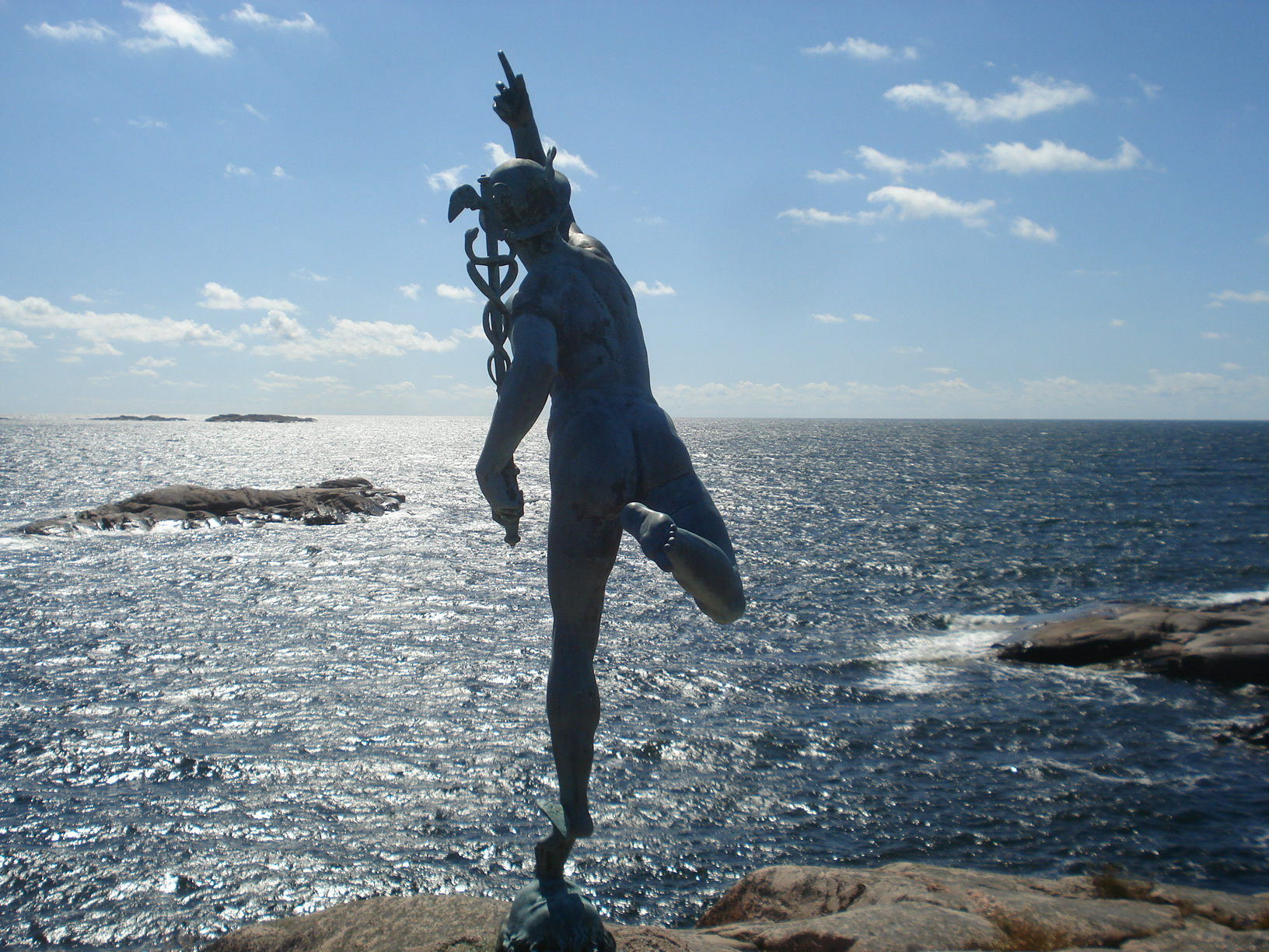 Replica of the famous statue by Giovanni da Bologna on island of Källskär, locality of Kökar, Åland archipelago, Finland